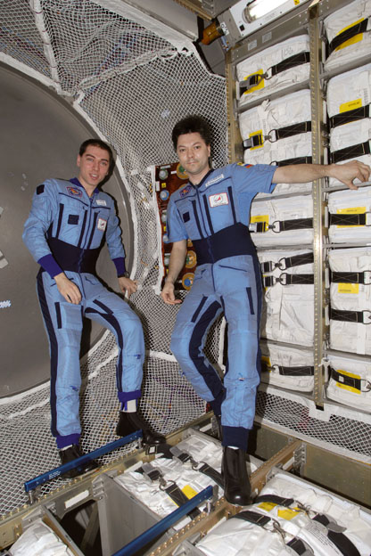 Sergei Volkov (left) and Oleg Kononenko take a moment for a photo in the Jules Verne Automated Transfer Vehicle (ATV) while it remains docked with the International Space Station.